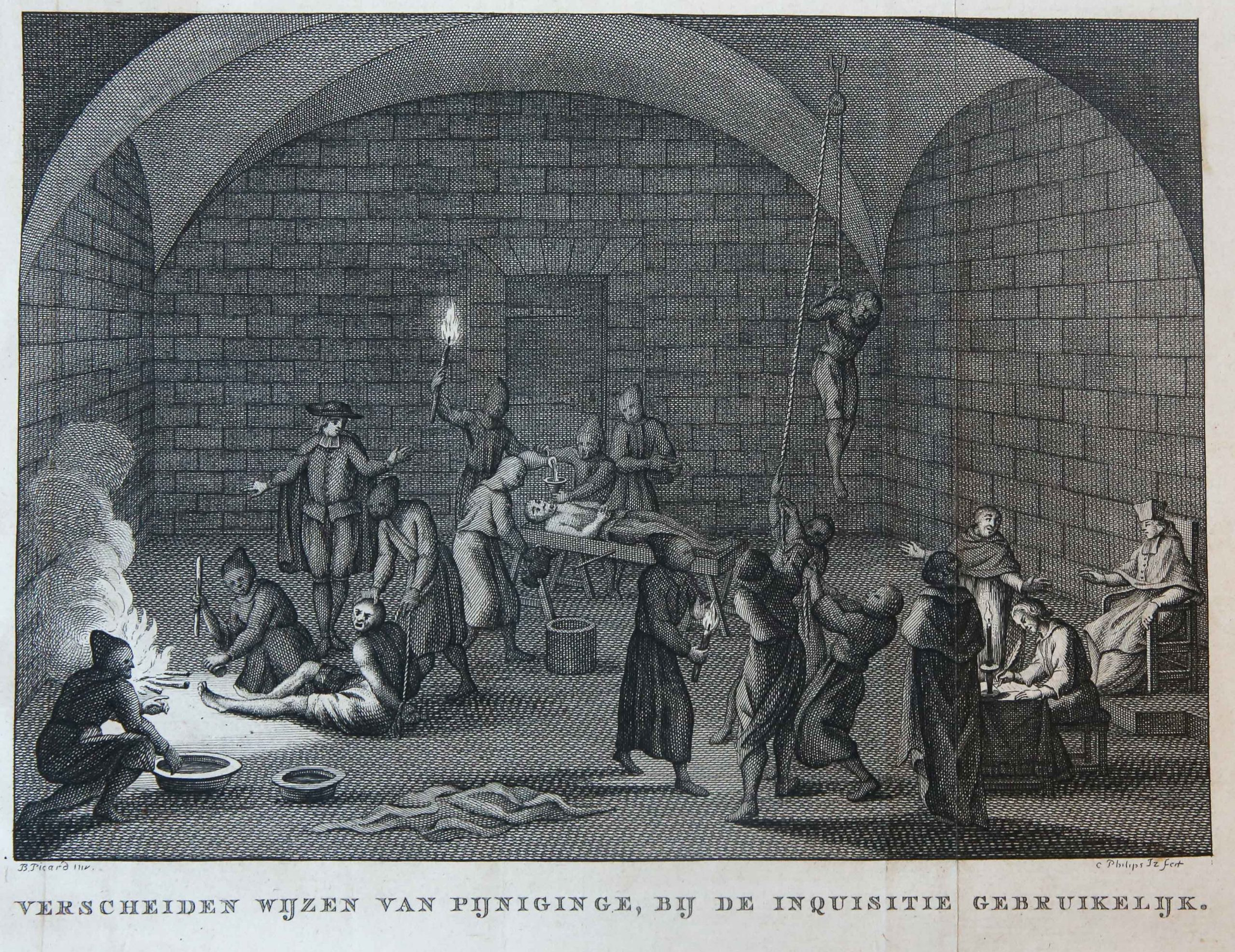 Copper engraving showing several methods used by the inquisition